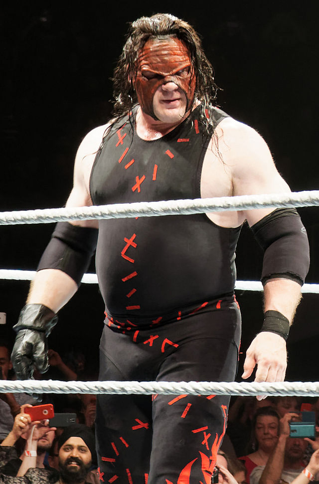 Kane 2016